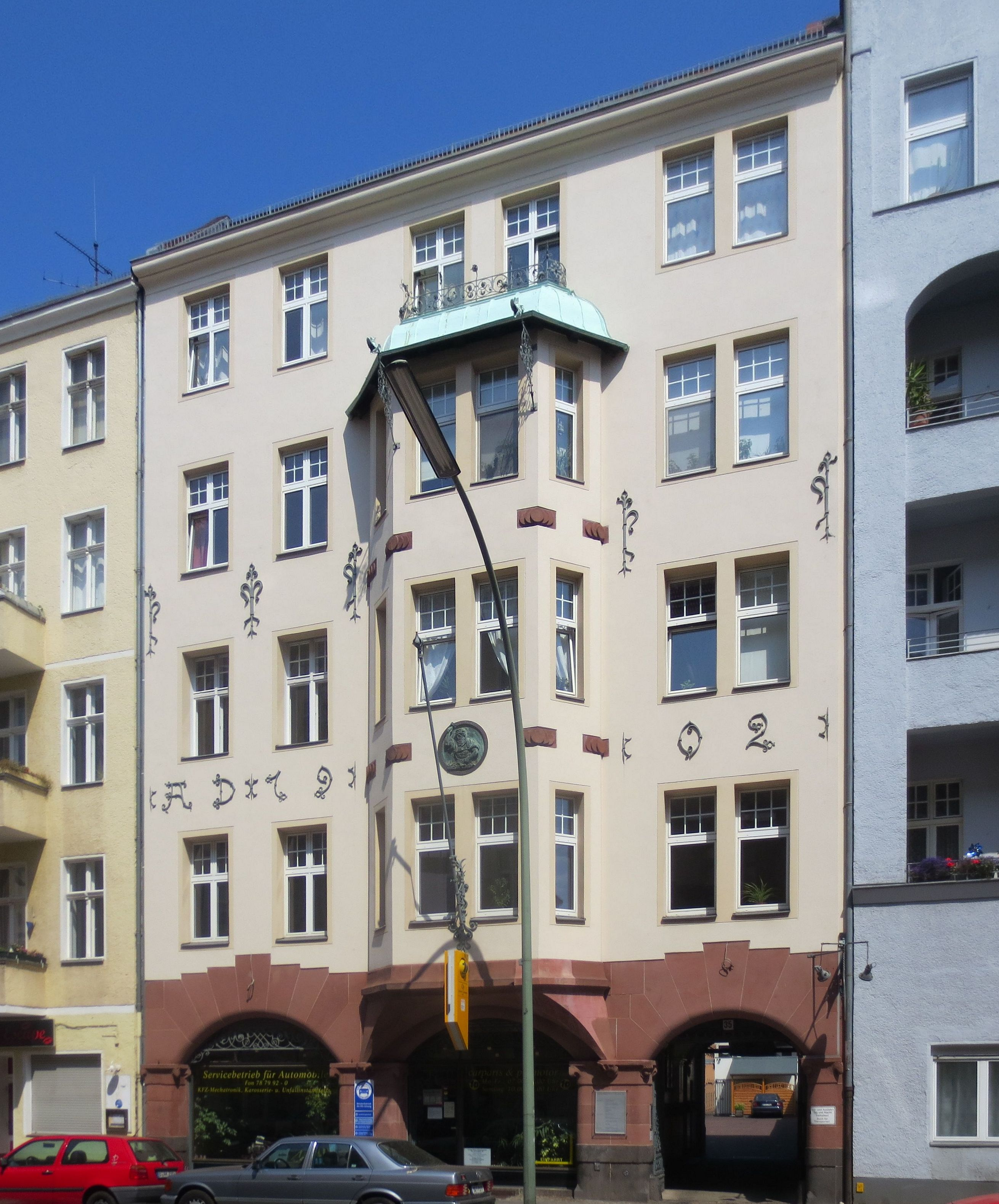 The former court metalsmith shop Paul Markus at Monumentenstraße 35 in Berlin-Schöneberg. The residential building with a side wing was built in 1902/1903 by Richard Kühnemann. It has been designated as a cultural heritage monument.